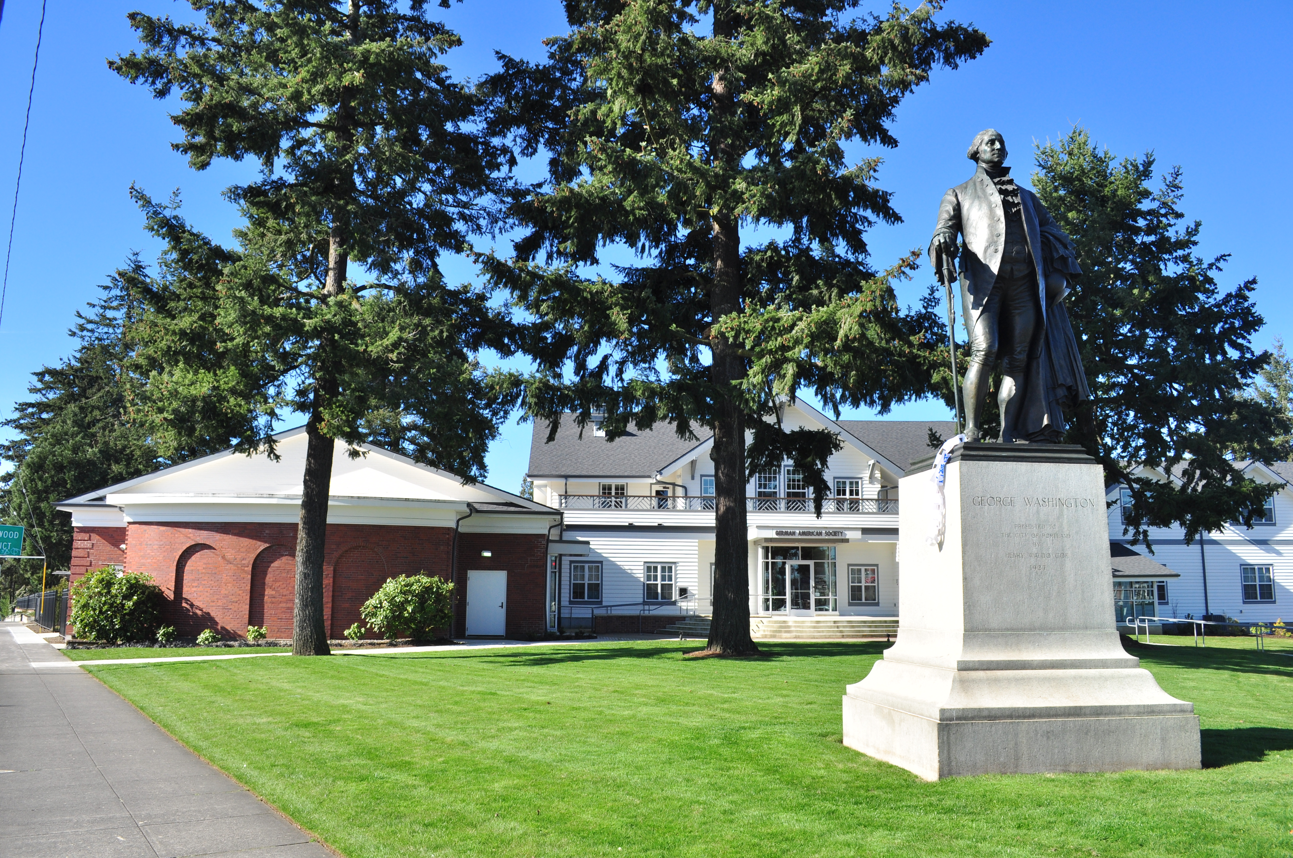 George Washington statue and German-American Society building, 57th and Sandy, Portland, Oregon, U.S. This is pretty much exactly the border between the Rose City Park and Hollywood neighborhoods.